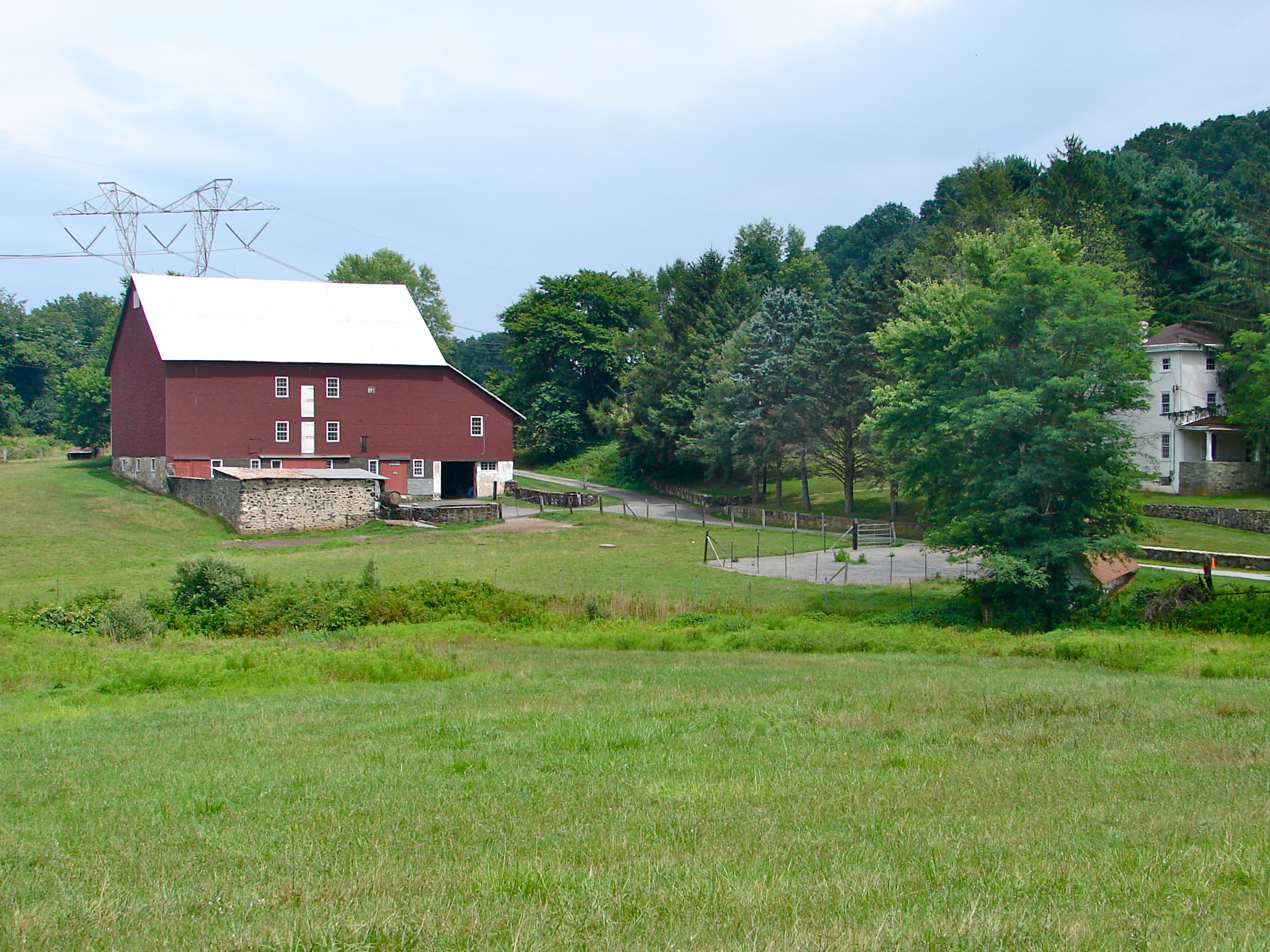 Kuerner Farm, named a National Historic Landmark in July 2011. At 14 Ring Road, in Chadds Ford Township, Delaware County, Pennsylvania.